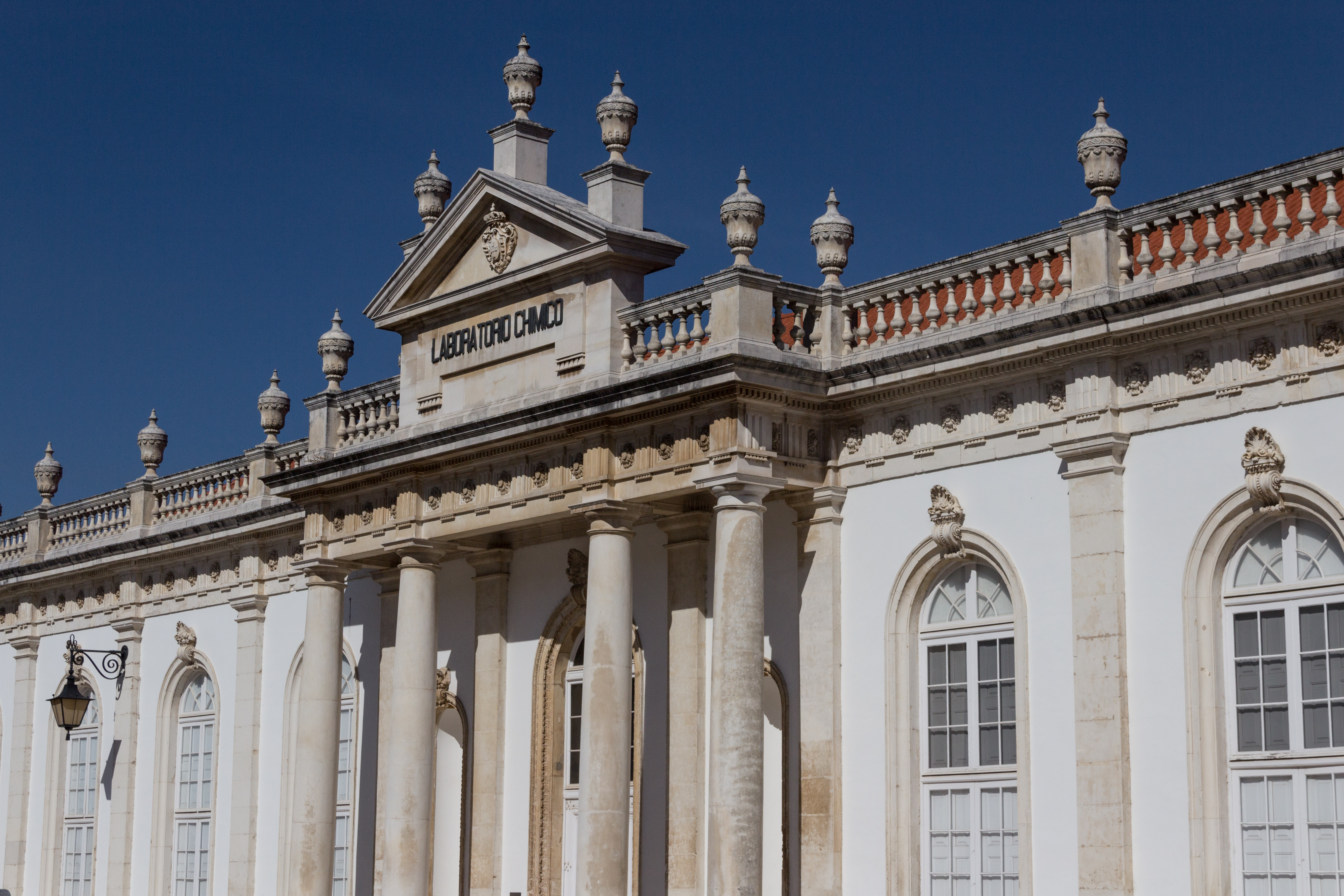 Chemistry lab, now a science museum